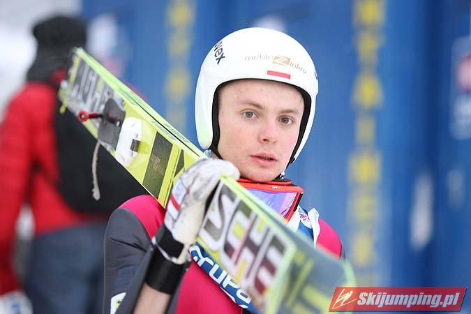 Jan Ziobro during FIS Ski Jumping World Cup in Zakopane, 2013